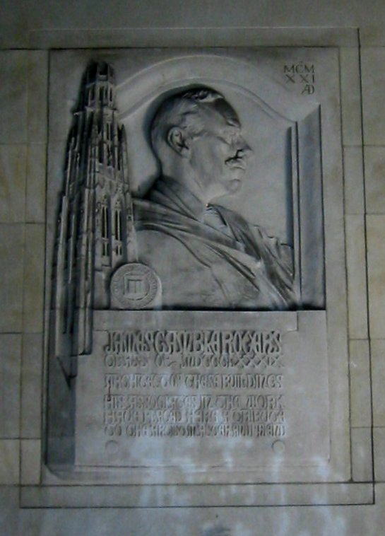 James Gamble Rogers, architect of many buildings at Yale University. This carving is in Memorial Quadrangle, designed by Rogers, which houses Yale's Branford and Saybrook Colleges as well as landmark Harkness Tower.